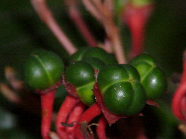 Species: Clerodendrum speciosissimum Family: Verbenaceae Image No. 1